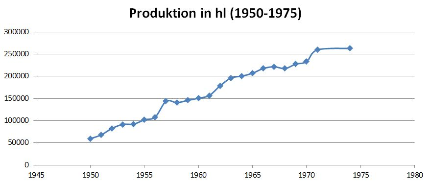 Hofbräu Kaltenhausen